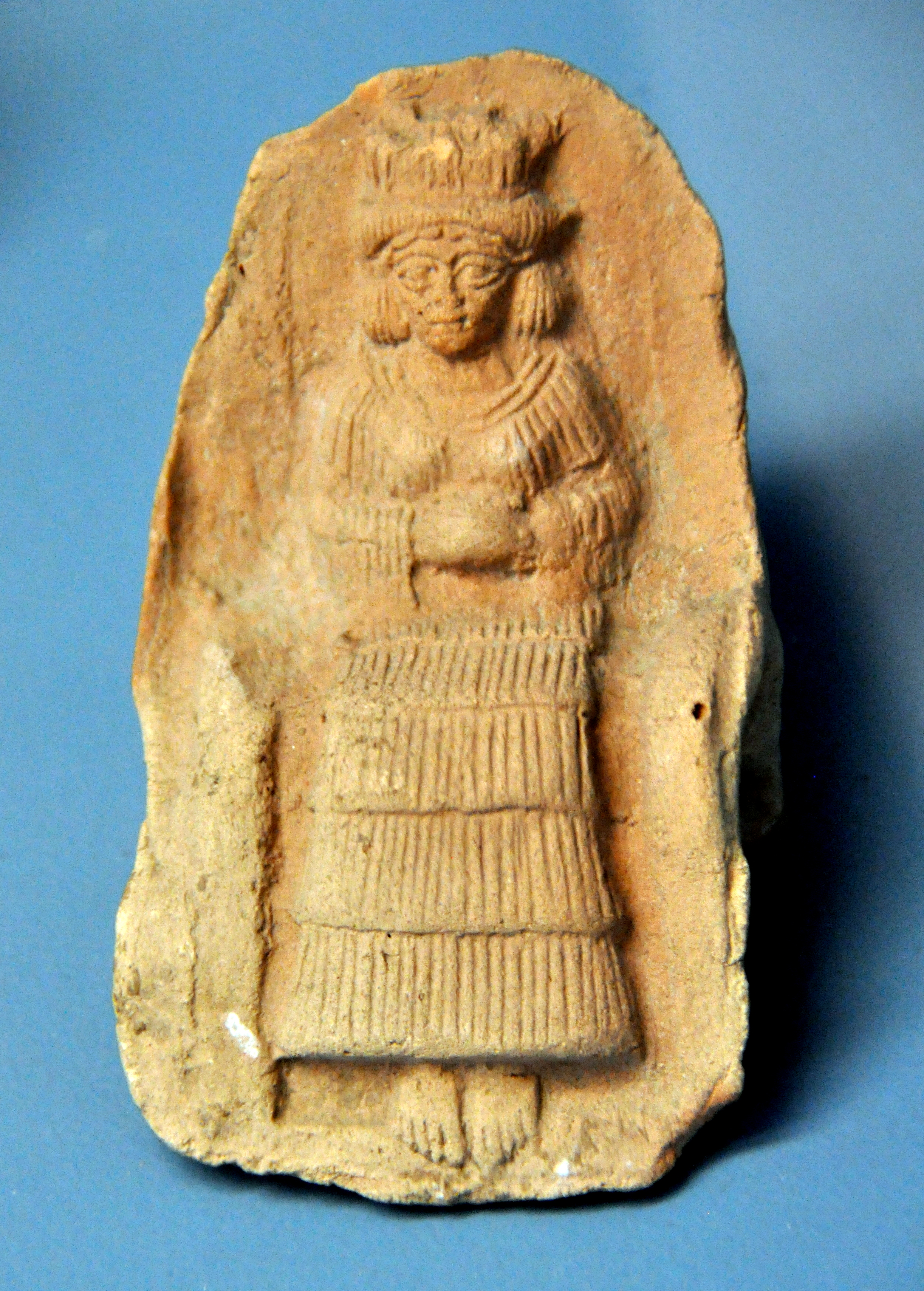 Terracotta plaque of a seated goddess; probably goddess Nanaya. From Tell Telloh (ancient Girsu), Southern Mesopotamia, Iraq. Kassite period, 1570-1155 BCE. On display at the Ancient Orient Museum, Istanbul, Turkey.